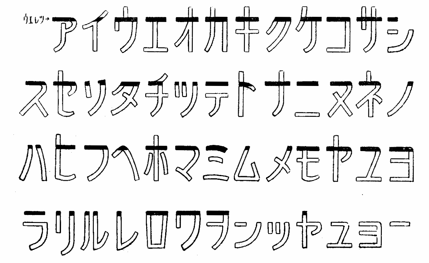 Japanese katakana typeface having the "upper line" to form the unity of characters consisting a word. This image was scanned at 300 dpi.